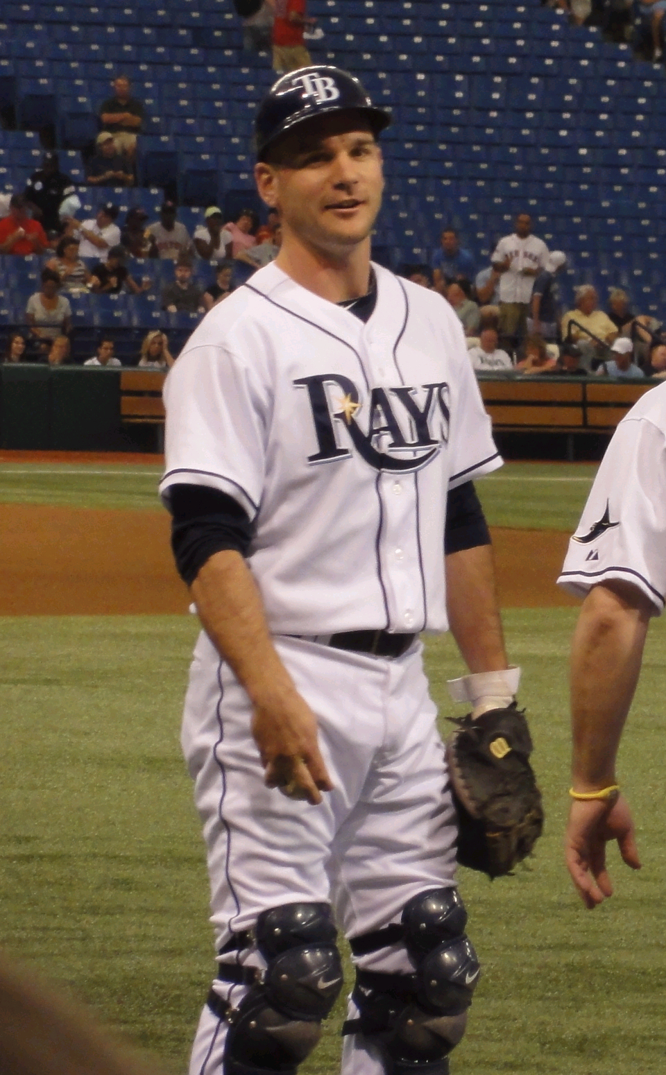 John Jaso